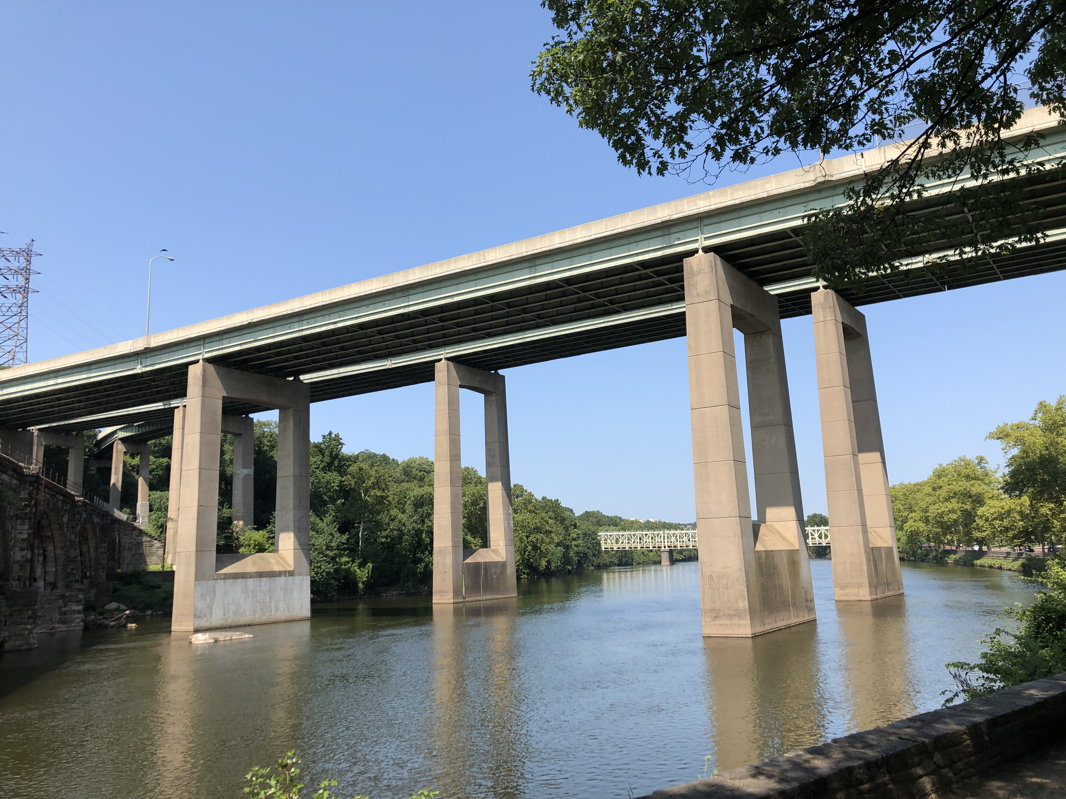 City Avenue Bridges